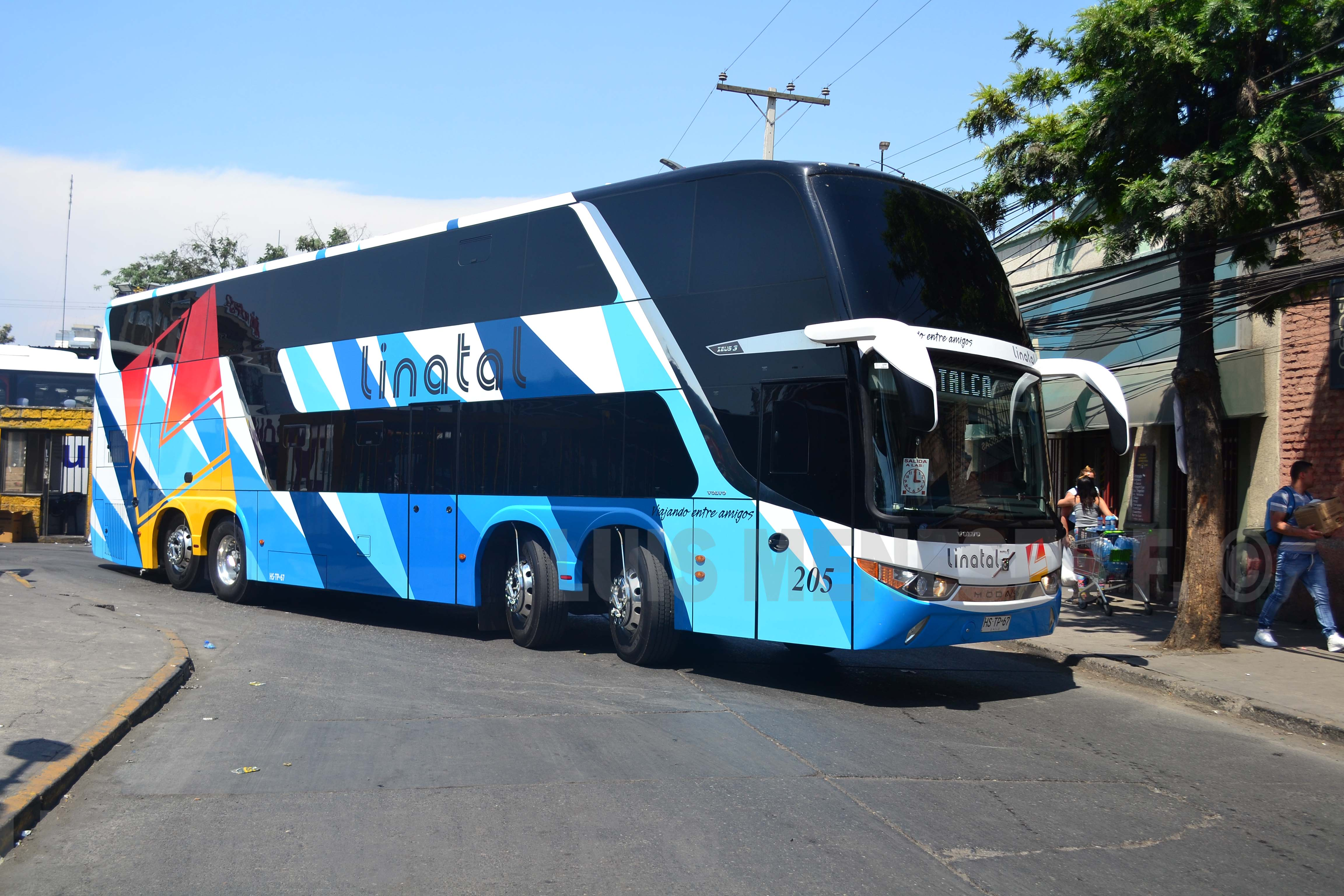 Volvo B450R 8X2, Modasa Zeus III, Linatal Nº 205 doble eje en el frontal.